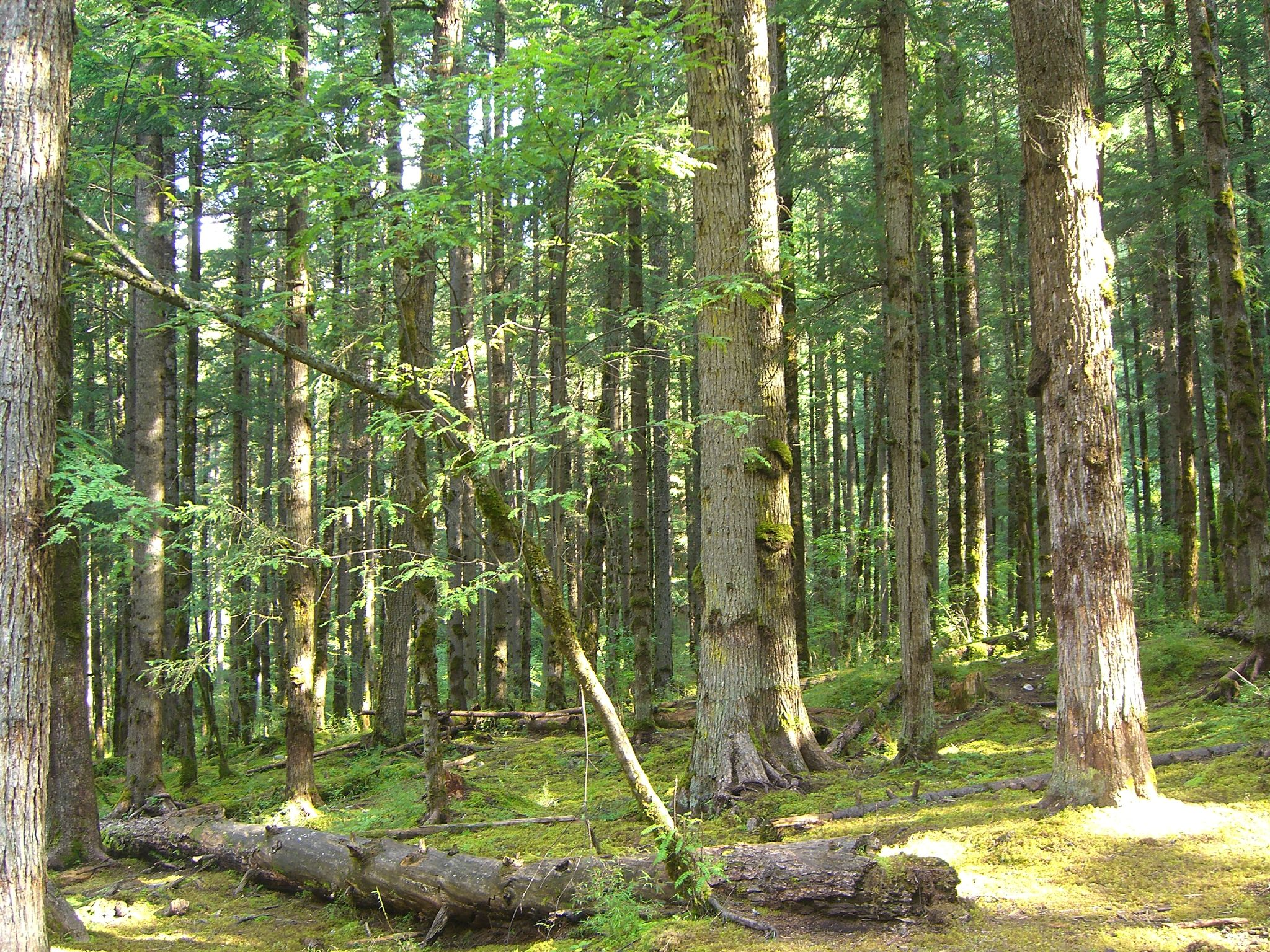 A forest in the Jiuzhaigou Valley, Sichuan, China